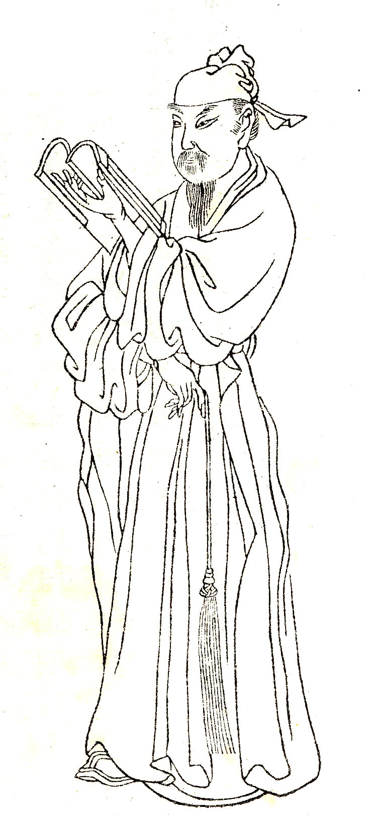 Song Lian (宋濂, 1310 - 1381) was a literary and political advsier to the Ming dynasty founder, and one of the principal figures in the Yuan Chingizid Dynasty.